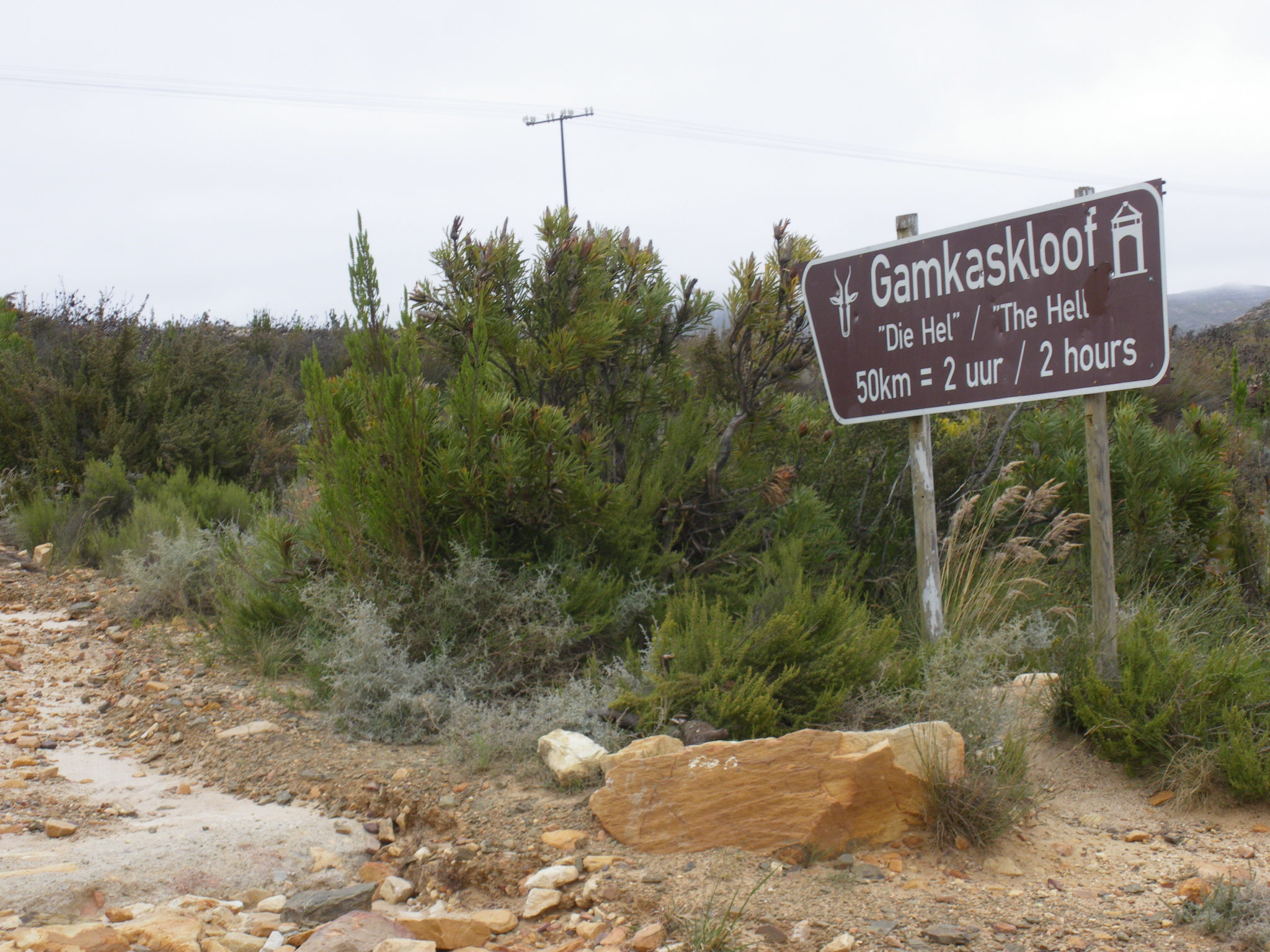 Gamkaskloof at Swartberg Pass, Western Cape Province, South Africa.